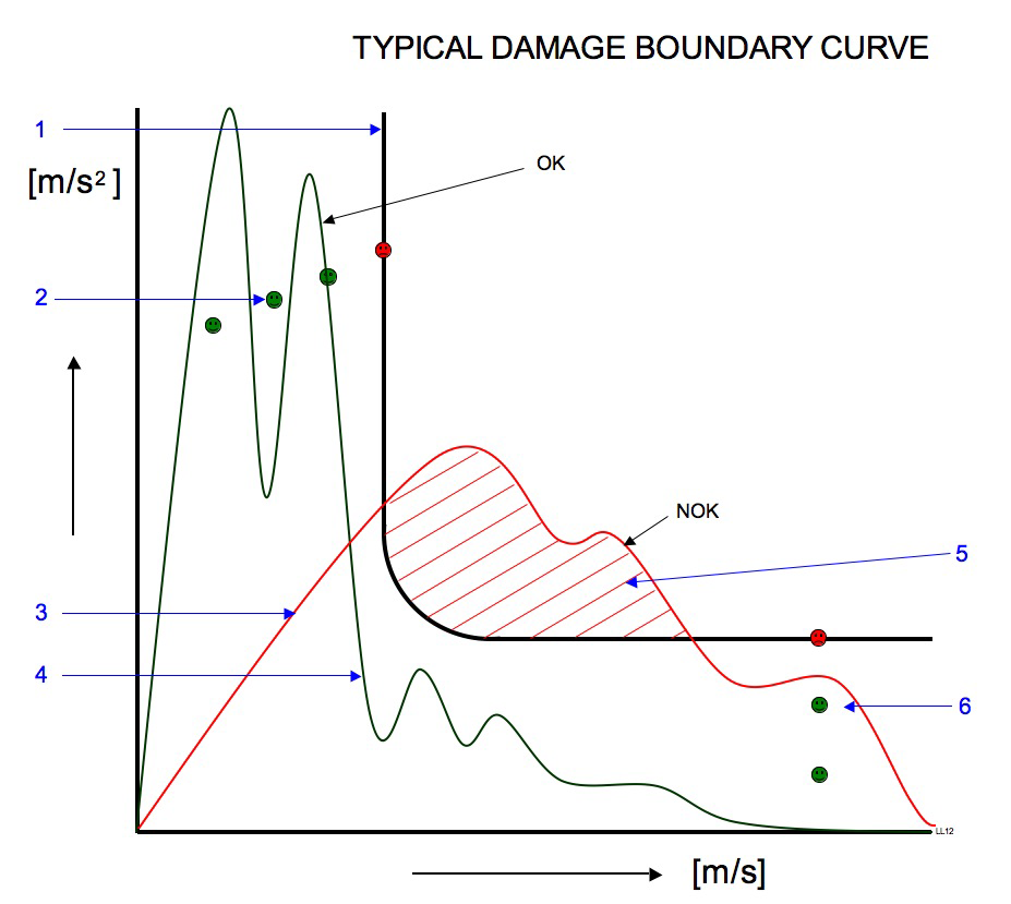 Typical damage boundary curve. 1 Curve. 2 Measurements to determinante the curve (high acceleration & low duration). 3 Negative test results. 4 Positive test results. 5 Damage area test 3. 6 Measurements to determinante the curve (low acceleration & high duration).